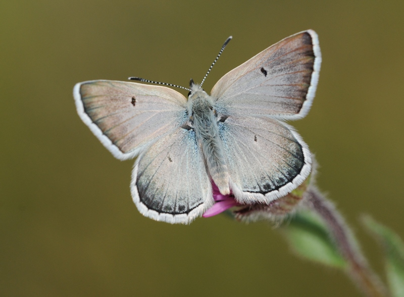 Wing upperside view of a male "Gavarnie Blue" (Polyommatus pyrenaicus). Palandoken Mt. Erzurum, Turkey. 2935 m.